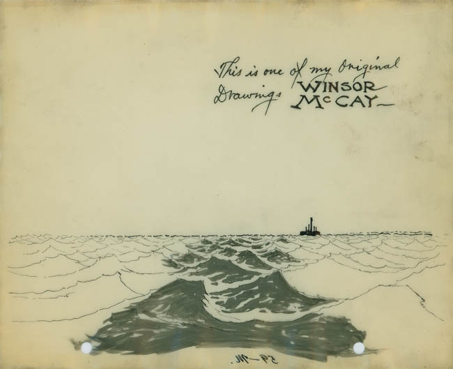 A cel from the animated film The Sinking of the Lusitania by American cartoonist and animator Winsor McCay